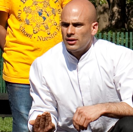 American Chef Sam Kass in 2009. Photo cropped from "First Lady Michelle Obama and White House Chef Sam Kass show students from the Bancroft Elementary how to plant a garden. The White House Vegetable Garden was officially planted today."